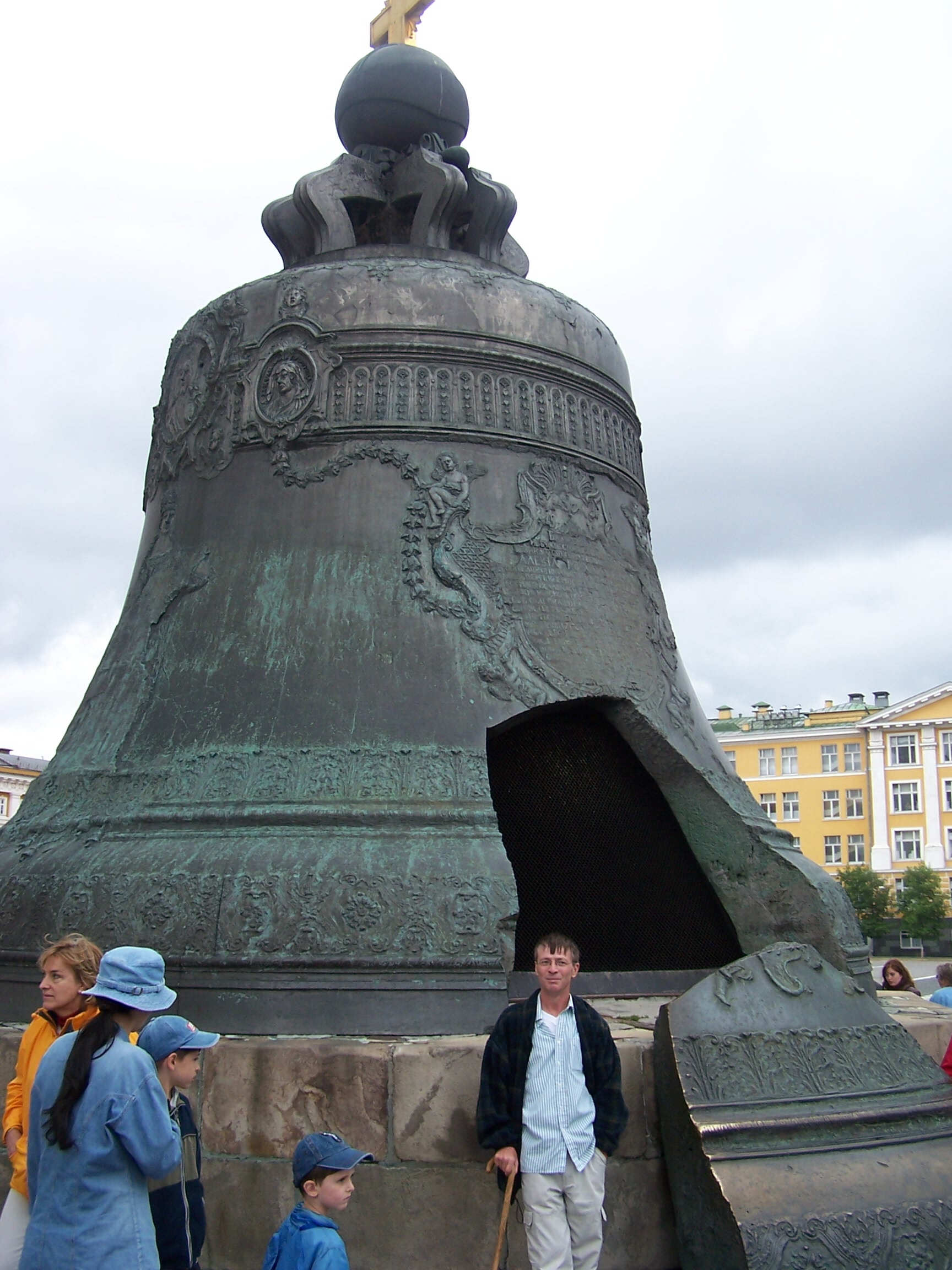 The Tsar Bell in the Moscow Kremlin 2005